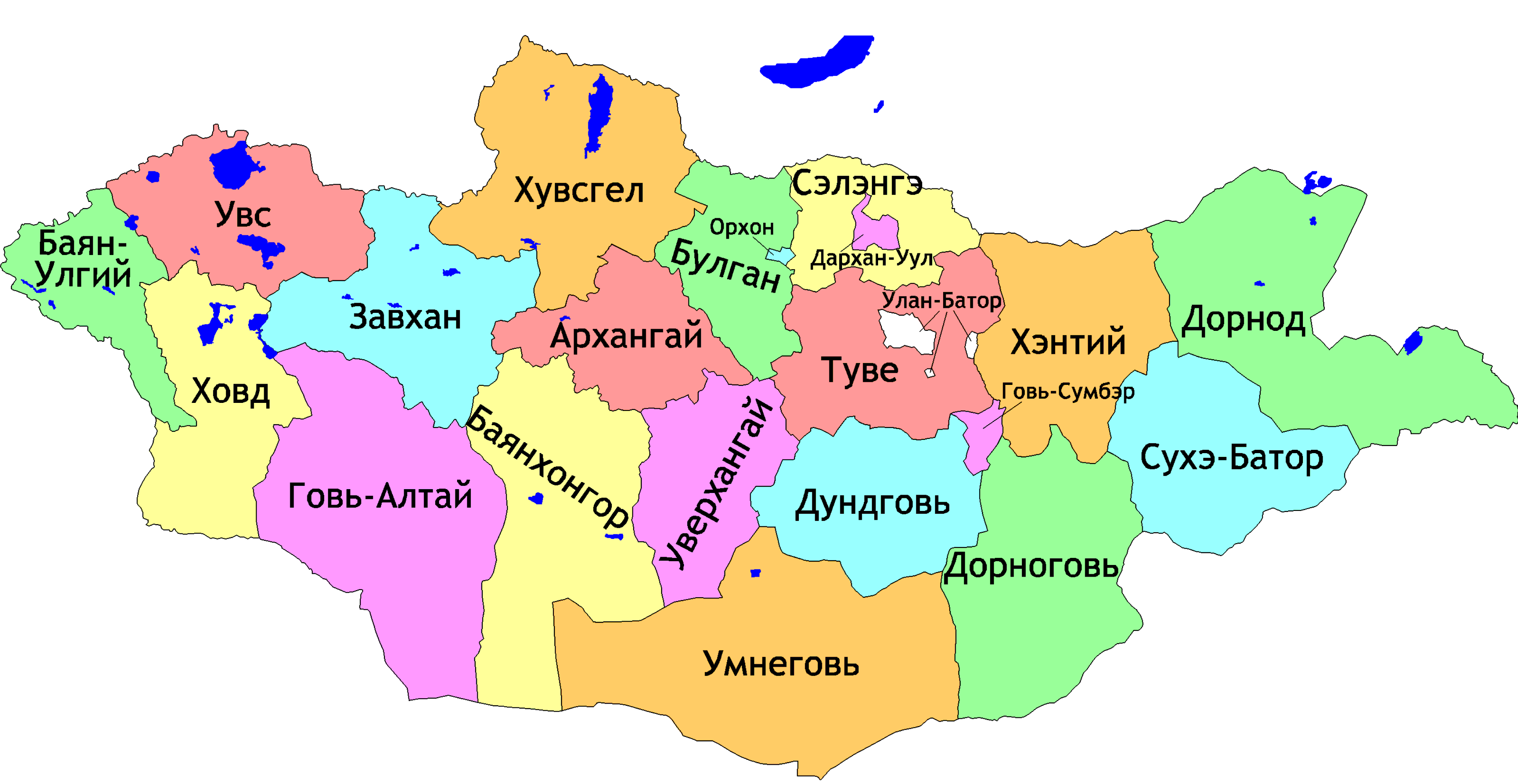 Mongolian provinces 2011 Russian version (new province names spelling)